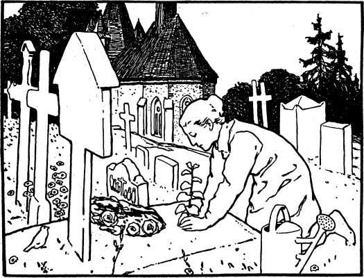 Illustration to Cinderella by Otto Ubbelohde